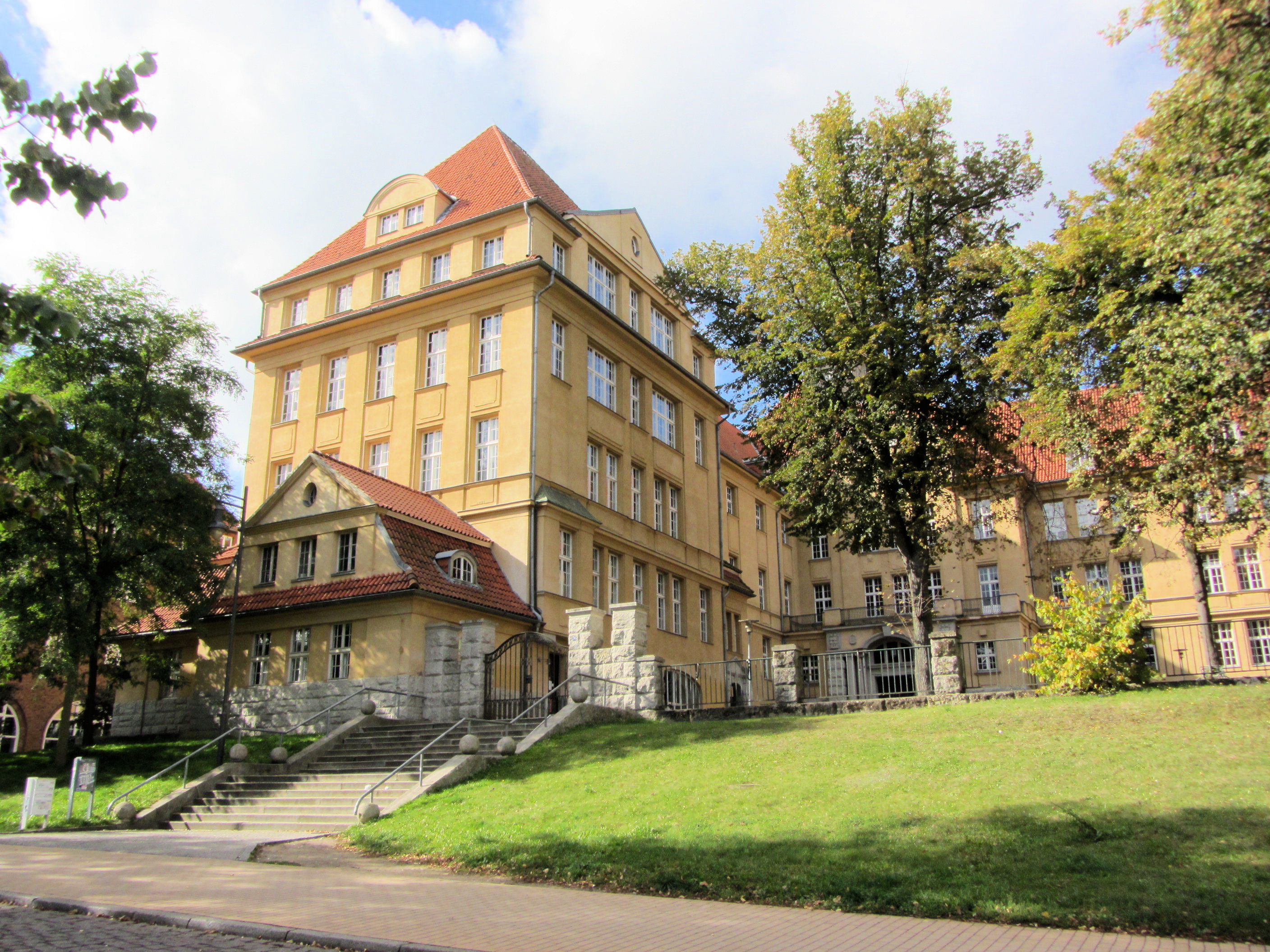 Gymnasium (school) Fridericianum (former Lyzeum) in the Goethestraße 74 in Schwerin, Mecklenburg-Vorpommern, Germany